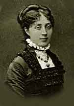 Marie Fauré-Fremiet, wife of Gabriel Fauré photographed between c. 1860 and 1870.